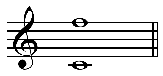 Perfect eleventh on C = F'. Just: 8:3 = 1698.04 cents. Equal-tempered: 217/12:1 = 1700 cents.